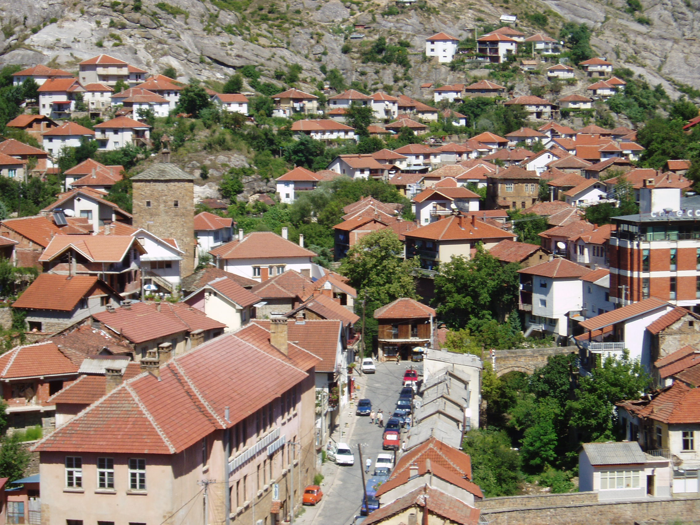 Panorama view of Kratovo, Republic of Macedonia